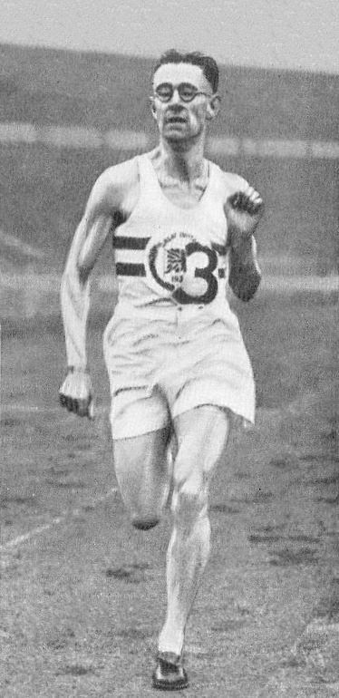 W.A. & A.C. Churchman cigarette card of Sydney Wooderson. Card no. 47 of a series of 50 cards titled "Kings of Speed"